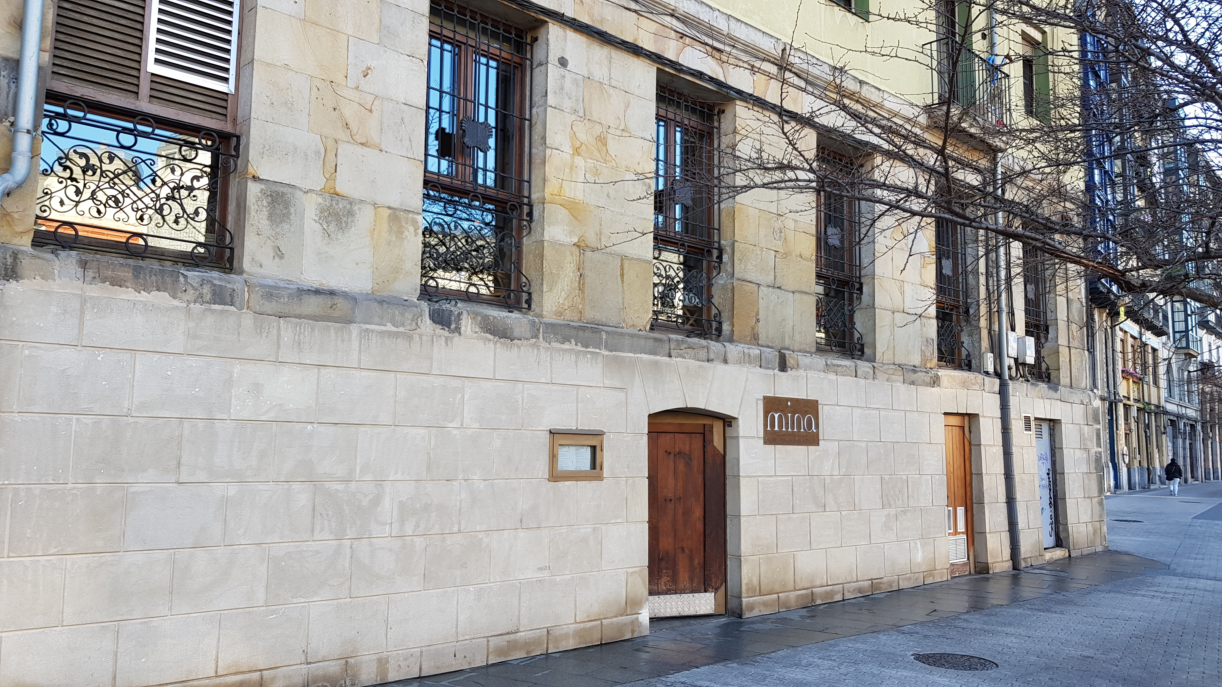 Restaurant Mina, Bilbao